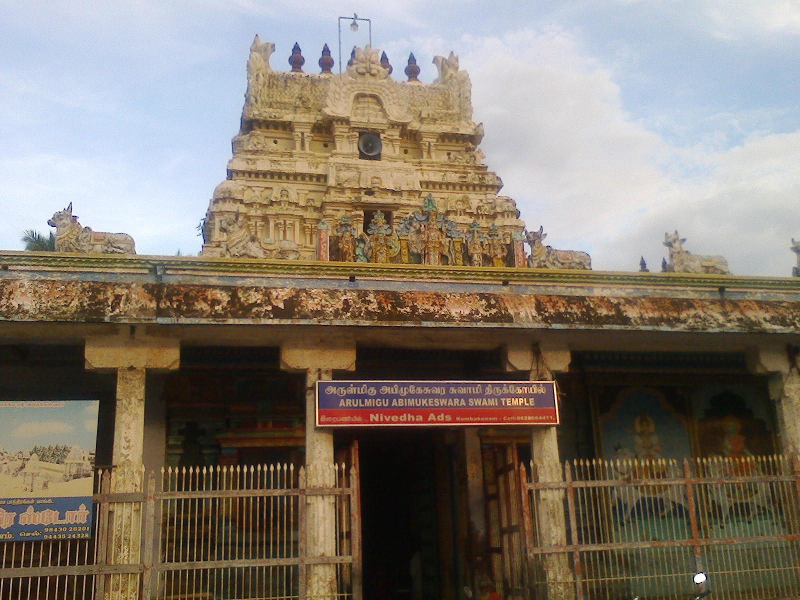 கும்பகோணம் அபிமுகேஸ்வரர் கோயில்